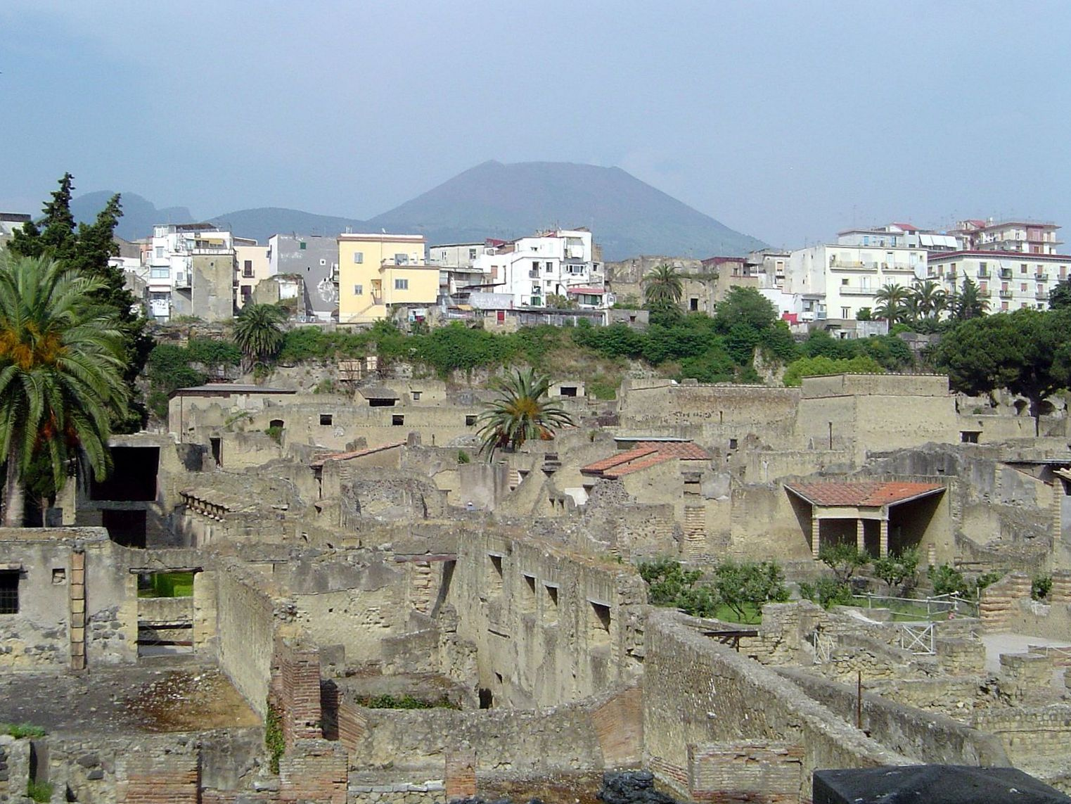 Ancient Herculaneum (foreground), modern Ercolano (center), and Vesuvius (horizon).